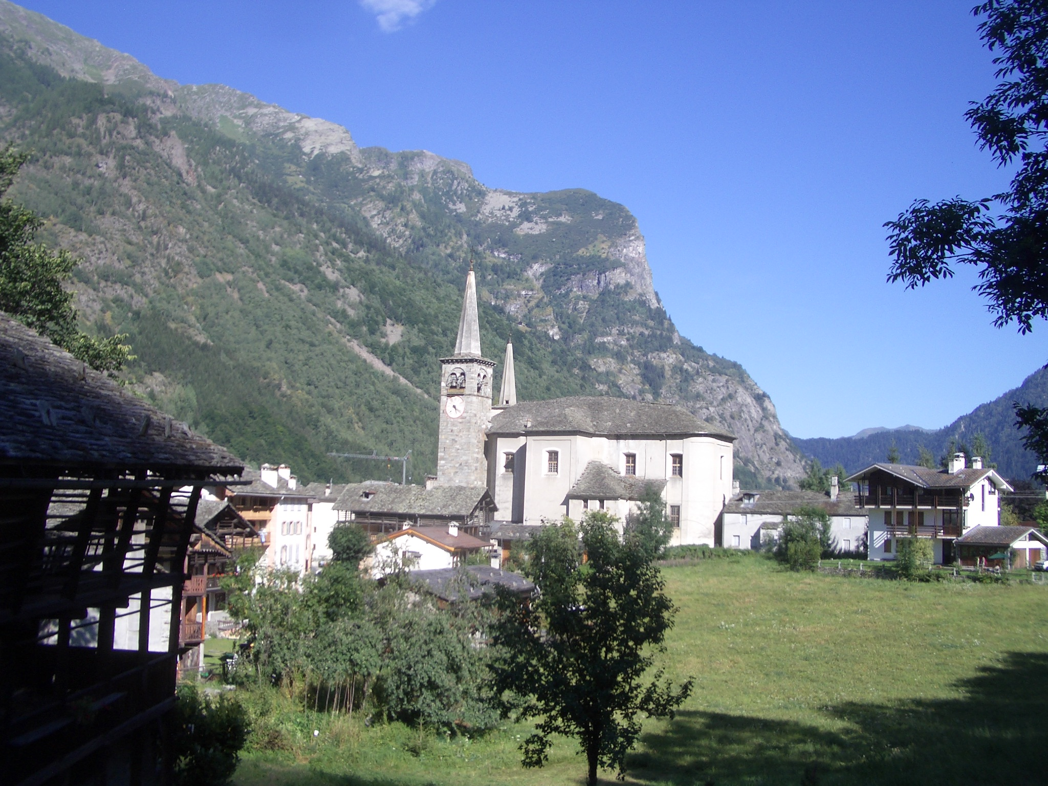 Landescape of Riva Valdobbia with San Michele church